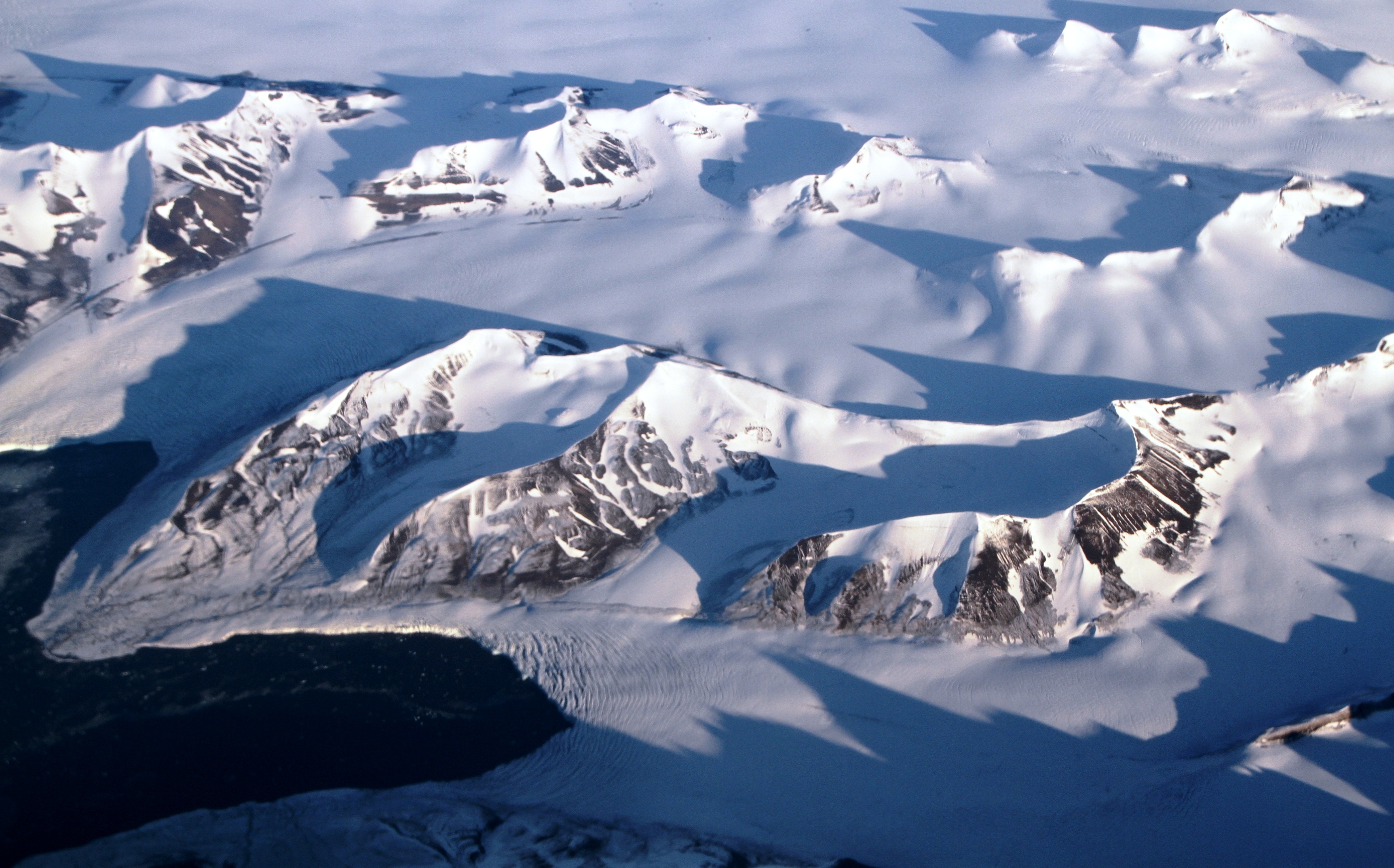 Aerial photo, from the west towards east, of the Sørkapp Land southernmost parts of Spitsbergen, Svalbard.